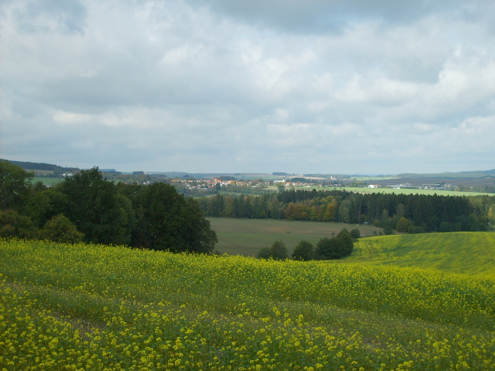 Full view to town Čechtice.